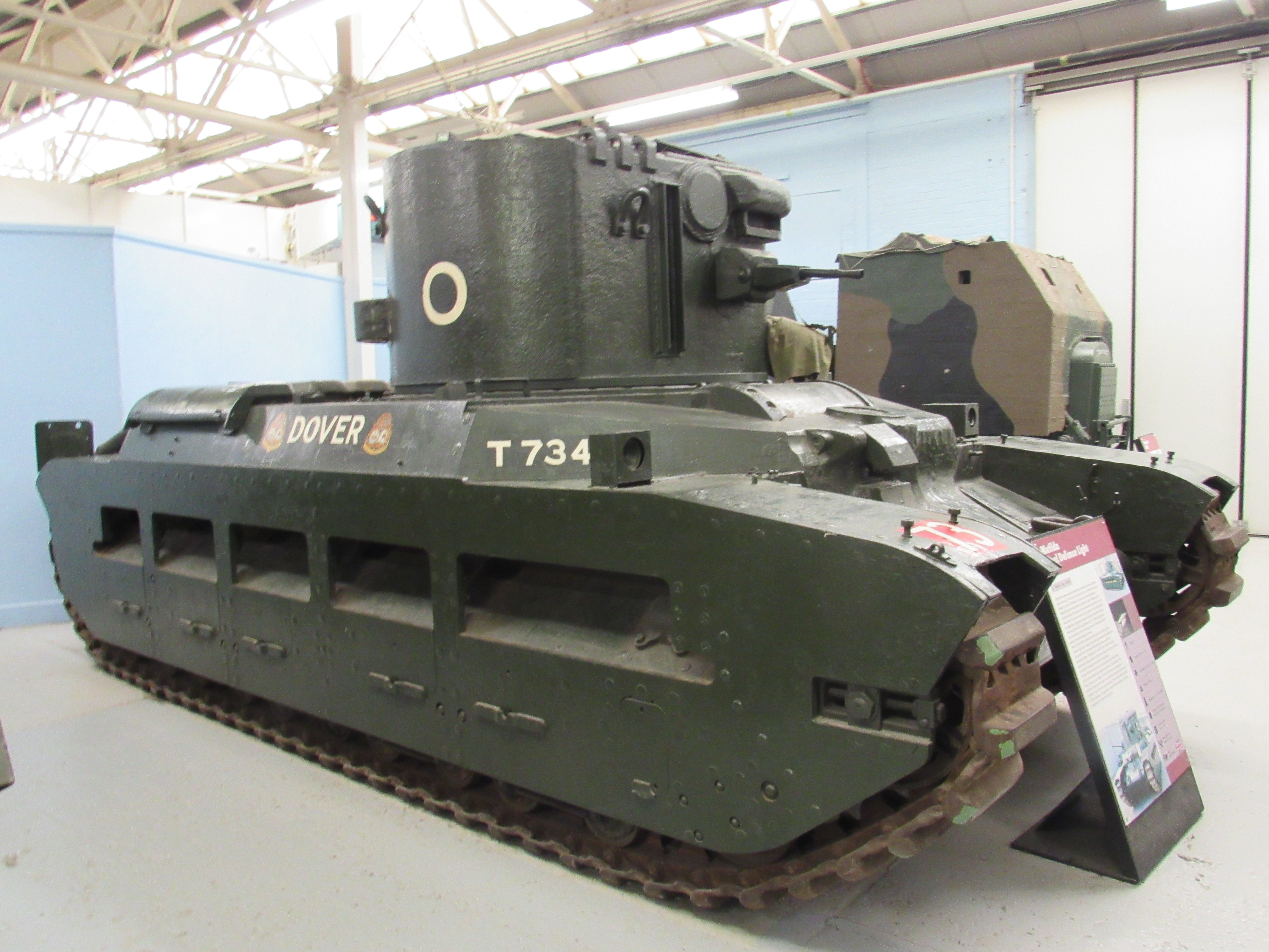 Taken in Bovington Tank Museum